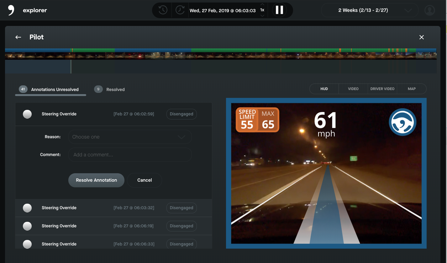 The tool used to annotate an openpilot drive to help the system learn how people drive.